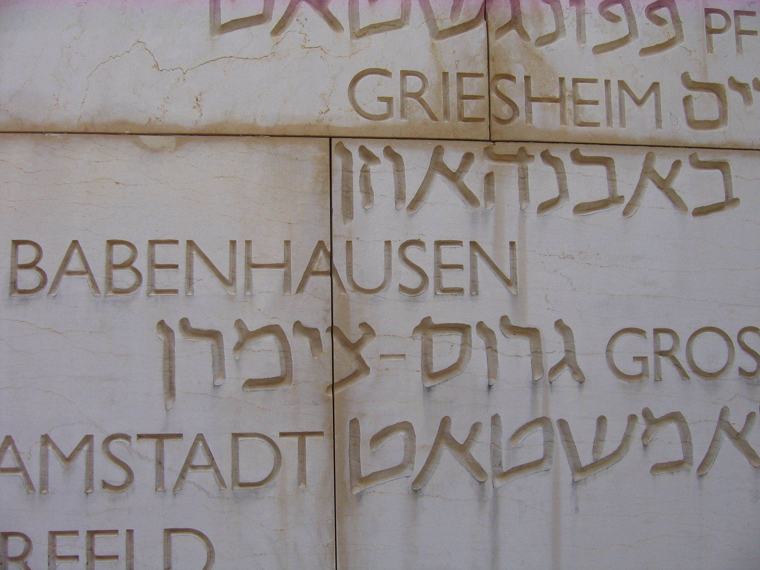 Valley of the Communities, Yad Vashem: Inscrption forthe community of Babenhausen (Hessen)